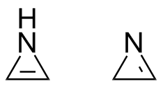 Azirines